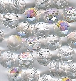 beads by me